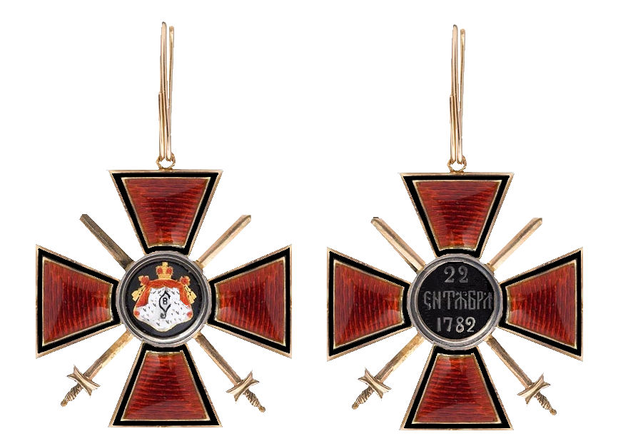 Order of St. Vladimir